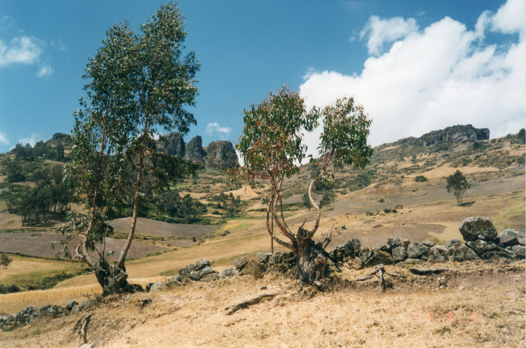 MACHE PERU - Majestic Miramar